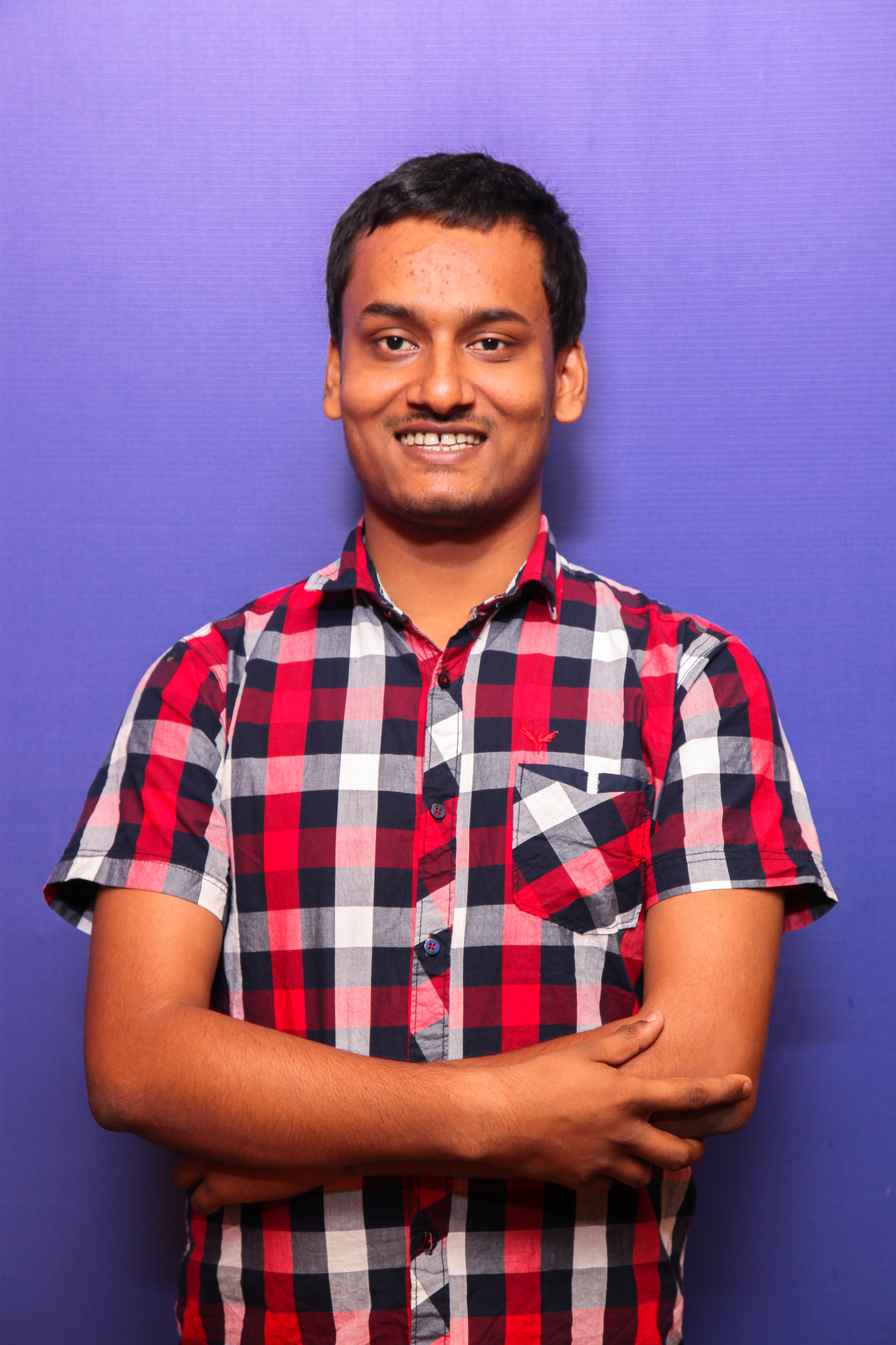 Babar Ali's Portfolio Photo who is the Youngest Headmaster of the World